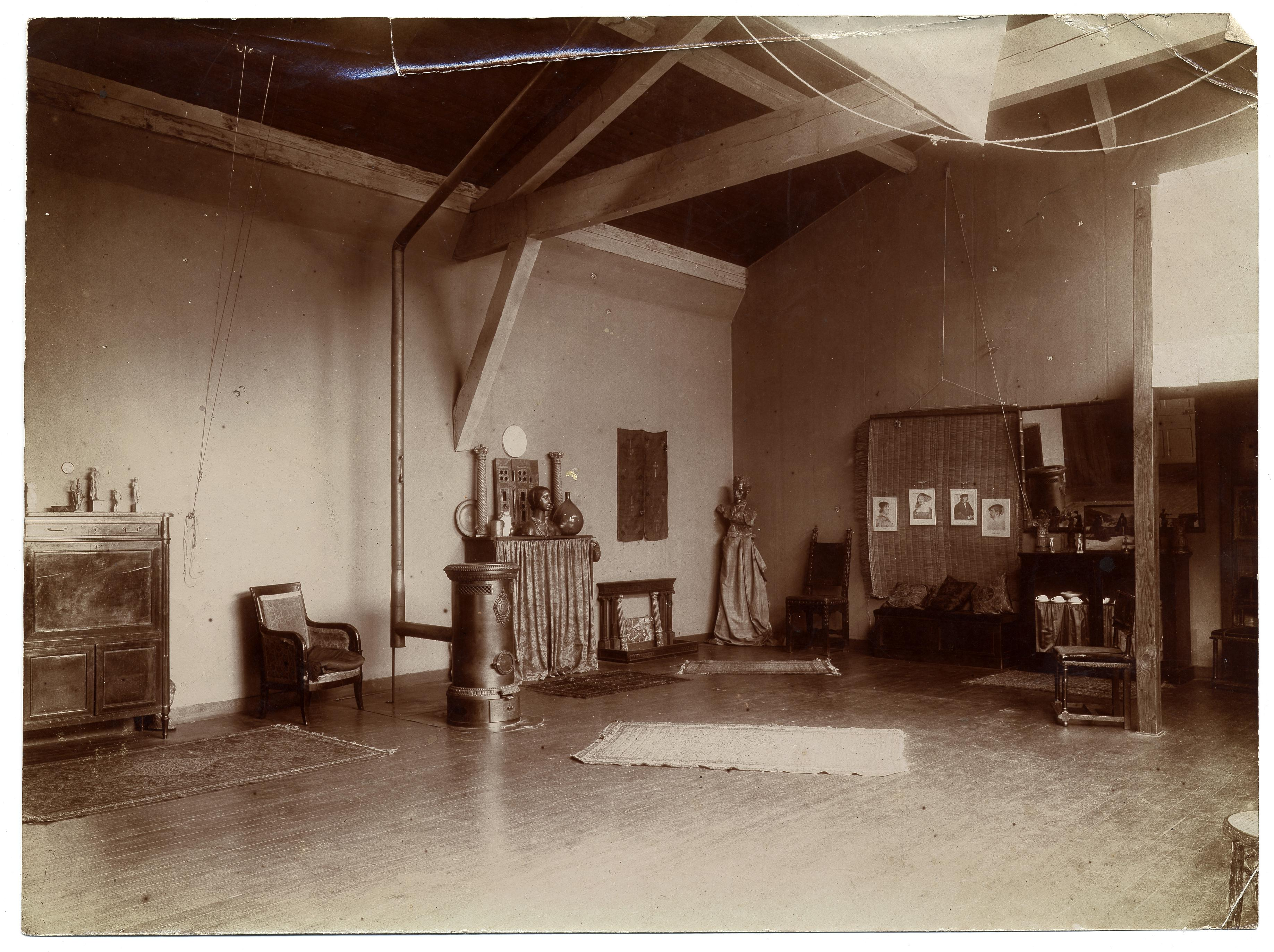 Description: Interior of Tanner's studio in Paris. Identification on verso (handwritten): Bust of Henry O. Tanner in the corner given by Jesse O. Tanner to the Metropolitan Museum. (Where is it now?) A studio at 51 Rue St. Jacques, Paris. At one time my father had two studios in the same building. Tanner, Henry Ossawa, 1859-1937 Creator/Photographer: Unidentified photographer Medium: Black and white photographic print Dimensions: 17 cm x 23 cm Date: c. 1920 Persistent URL: Repository: Archives of American Art Collection: Henry Ossawa Tanner papers, 1860s-1978 Accession number: aaa_tannhenr_5889